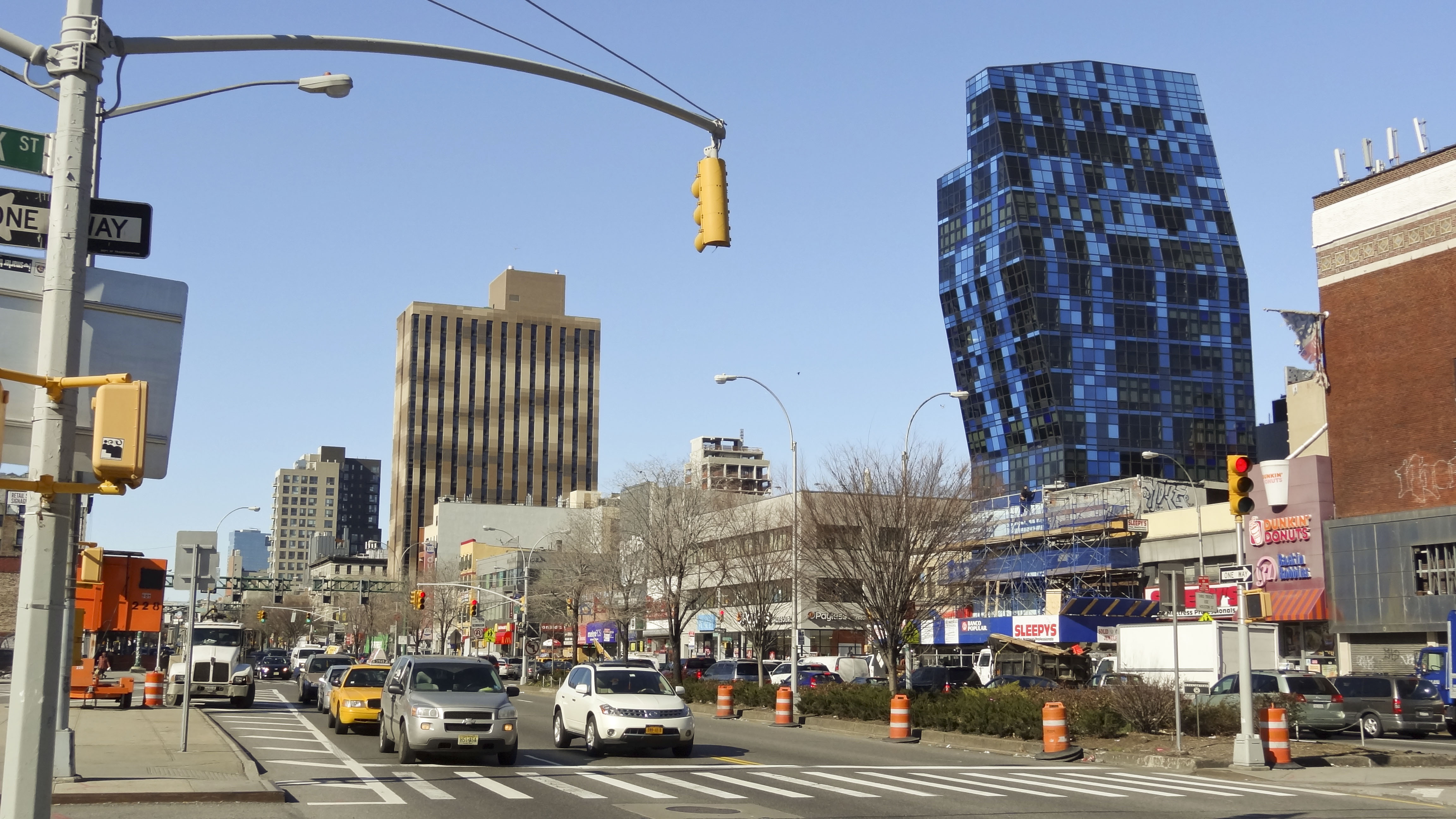 Bernard Tschumi's Blue Condominium Tower Lower East Side Neighborhood Delancy Street, photographer Laura Sanburn